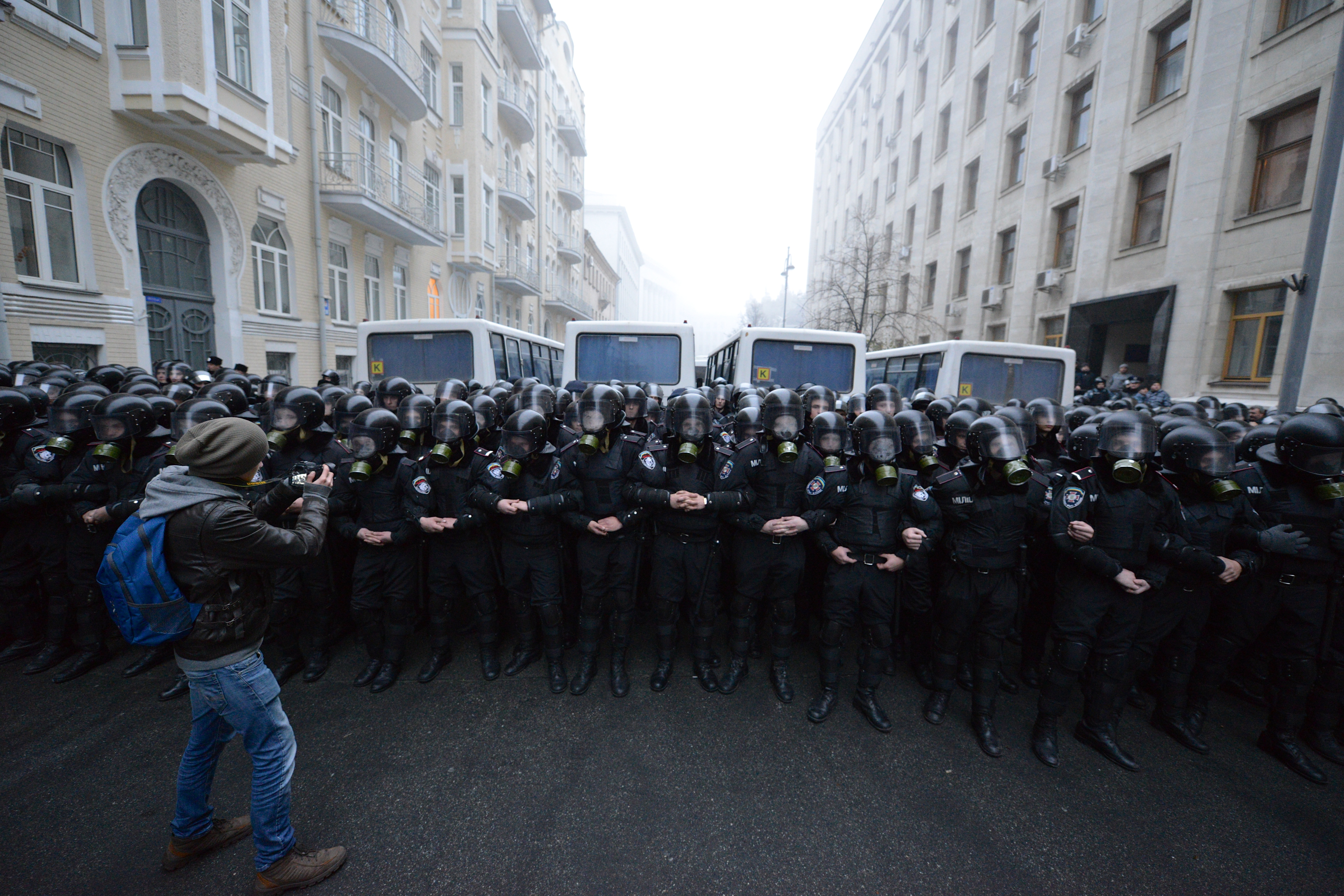 A massive pro-EU rally in Kiev on 24th of November, 2013, attended by over 100k. A line of Internal troops from the special forces brigade «Bars» (Leopard) guards the Presidential Administration.